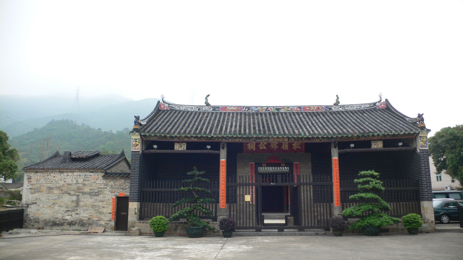 Front View of Tang Chung Ling Ancestral Hall, Lung Yeuk Tau, Fanling, Hong Kong